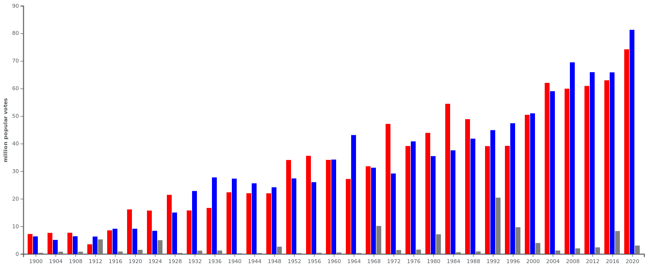 Bar graph of all popular vote totals in the United States presidential elections since 1900. Data from created using Template:Graph:Chart at User:Schmarrnintelligenz/pvote. Republican Democrat All other candidates together